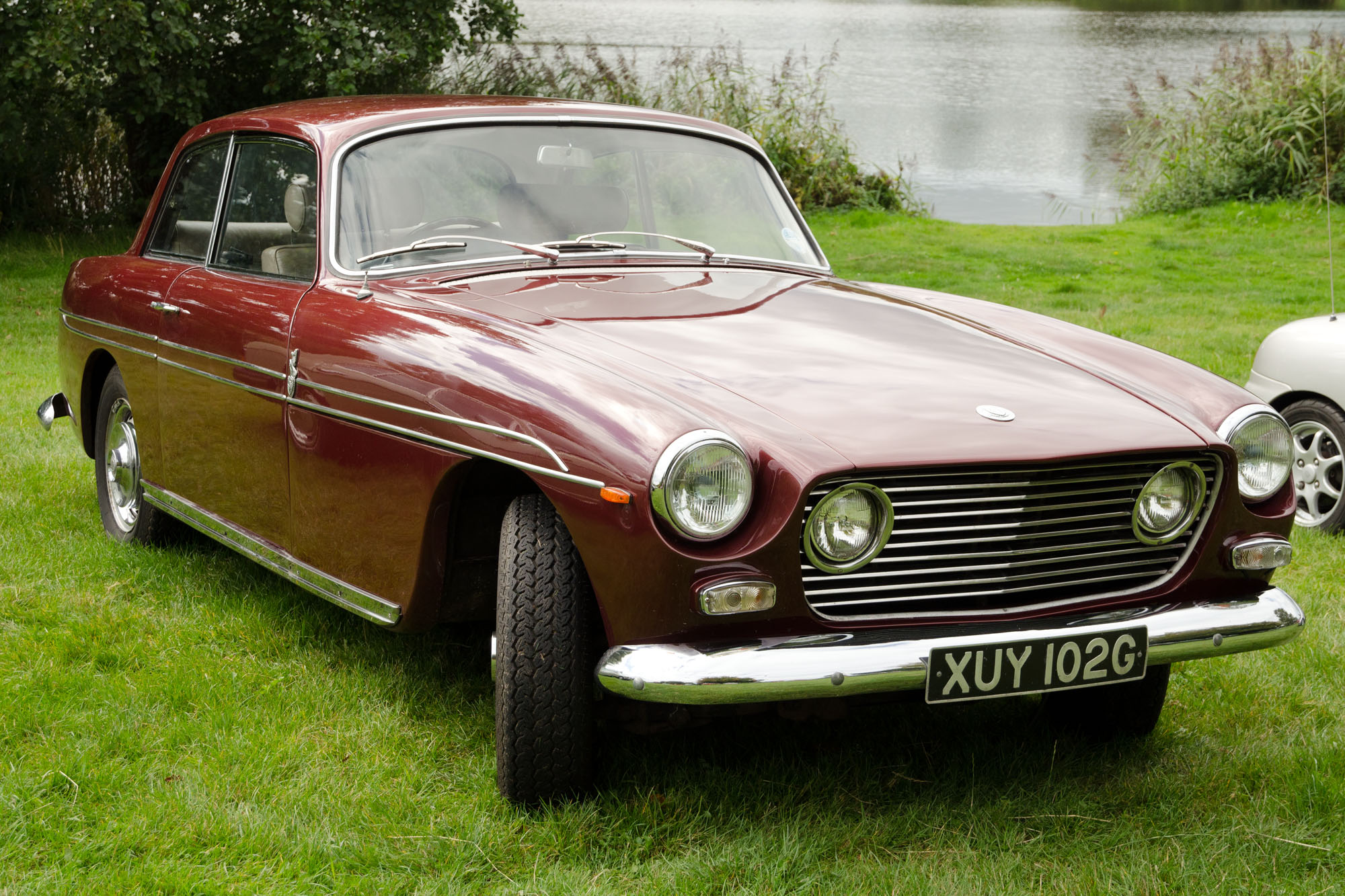 1969 Bristol 410 (DVLA) first registered 23 June 1969, 5211 cc